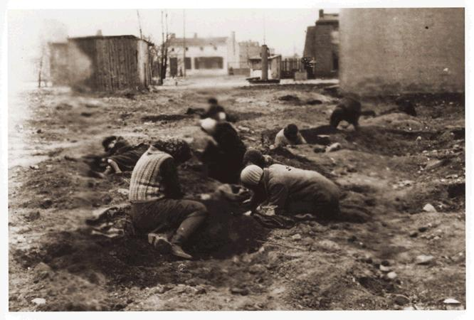 Ghetto Litzmannstadt: Children in an empty lot scavenge for fuel to heat their homes.